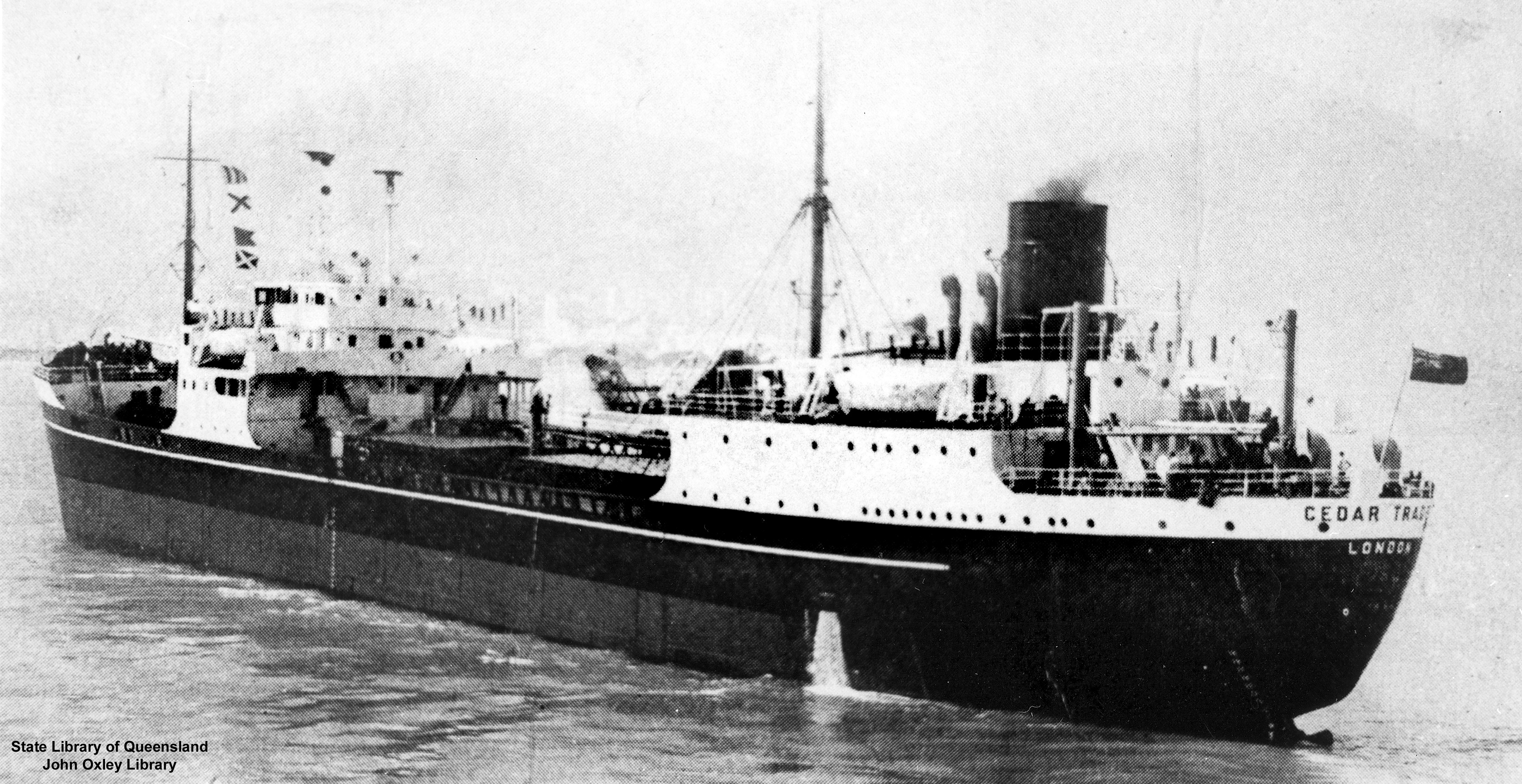 Moller & Co's ore carrier Cedar Trader. Götaverken of Gothenburg, Sweden built her in 1929 as the 8,038 GRT oil tanker Sandefjord for Viriks Rederi of Sandefjord, Norway. In 1937 Sigurd Herlofson & Co bought her and renamed her Herbjørn. In 1941 the German cruiser Admiral Scheer captured her and put a prize crew aboard. Admiral Scheer and the auxiliary cruiser Thor used Herbjørn to send more than 200 prisoners to Bordeaux. Herbjørn was renamed Monsun and registered in Germany. In 1943 an RAF bombing raid on Nantes set her afire and afterwards she was scuttled as a blockship. In 1945 Monsun was raised and repaired. In 1946 she joined the fleet of Societe Anonyme Courtage et Transports of Le Havre and was renamed Briére. In 1954 she was bought by Transoceanic Transport Co of Liberia and renamed Cape Mount. In 1955 Trader Line of Bermuda bought her and renamed her Cedar Trader. She was converted into an ore carrier, registered in London and Moller & Co of Hong Kong was appointed to manage her. In May 1964 she was laid up in Hong Kong and in September Typhoon "Ruby" drove her ashore and damaged her. In October she was refloated and in 1965 she was scrapped.